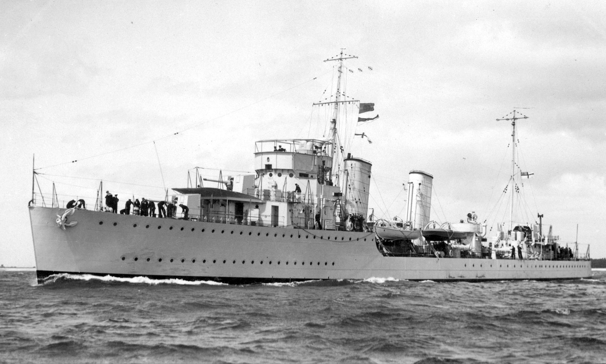 Photograph of Canadian destroyer HMCS Skeena (D59).